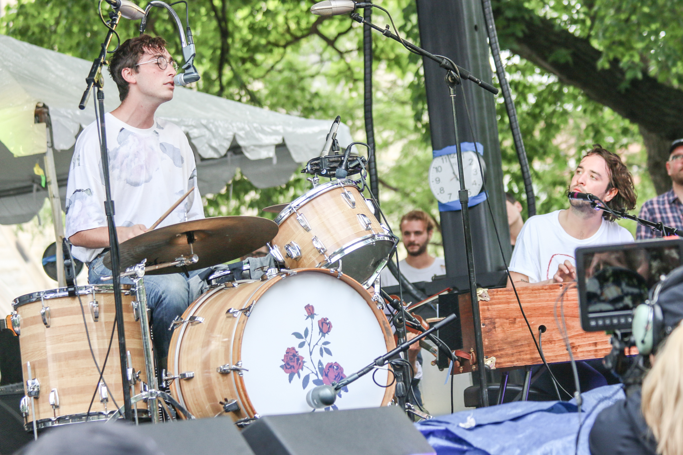 Whitney performing at the Pitchfork Music Festival at Union Park in Chicago, Illinois on Friday, July 15, 2016